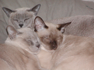 The token "Tonkpile" - Starting top going counter-clockwise: blue mink, platinum solid and champagne mink